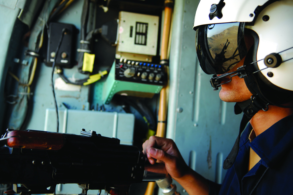 KABUL, Afghanistan – An Afghan National Army Air Corps Mi-17 helicopter crew chief scans the ground for potential danger during a MEDEVAC mission here Sept. 2. (U.S. Air Force photo by Staff Sgt. Thomas Dow)